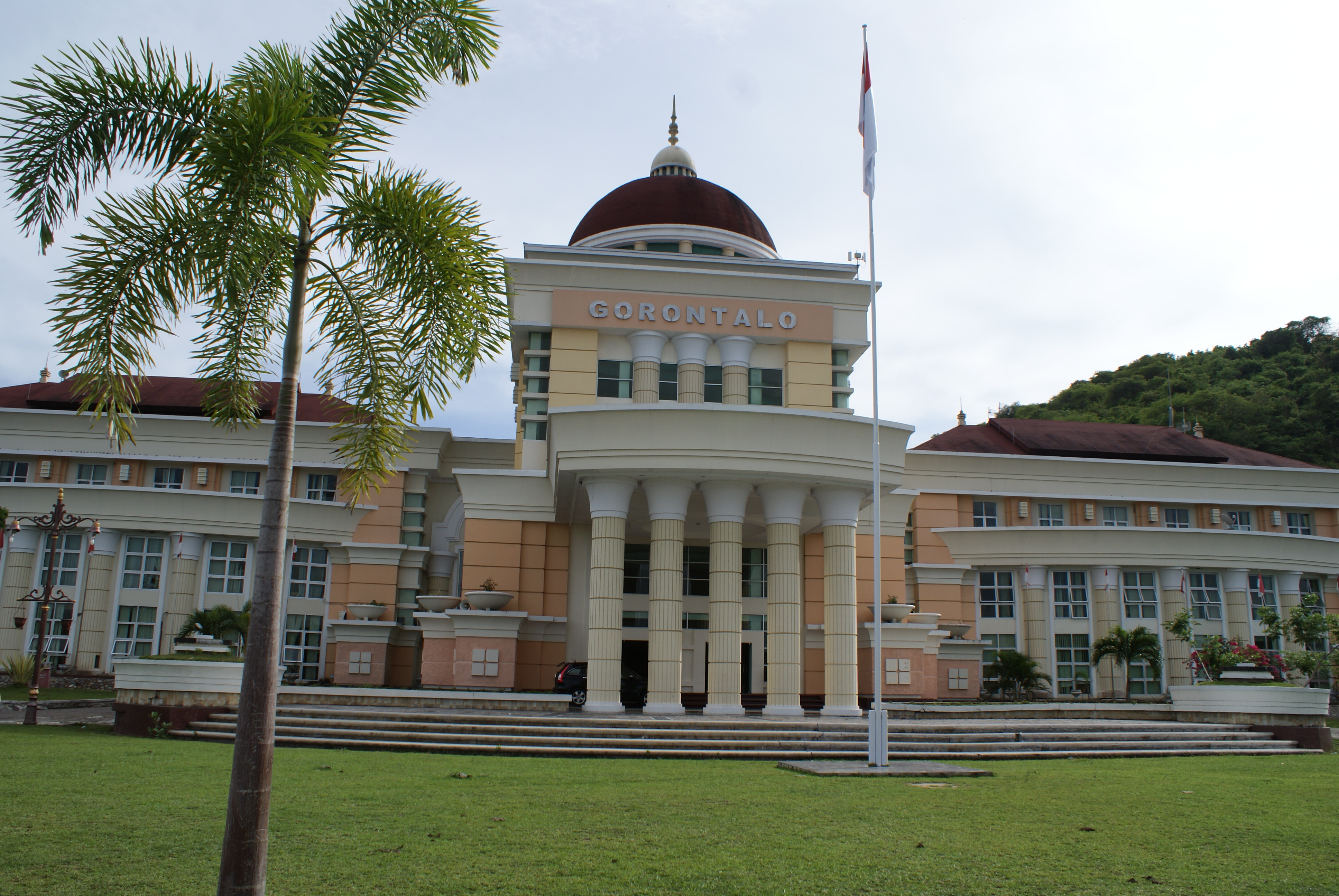 Governor Office of Gorontalo Province, Indonesia (2011)